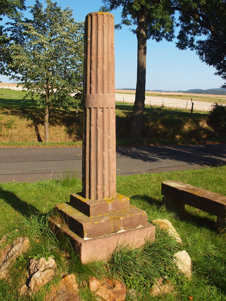 Column of sandstone, erected 1843 in honour of Velten (Valentin) Muhly. He was commander of the citizens guard of the town Ziegenhain. During the Thirty Years' War (1618-1648), on 15 November 1640, Muhly is said to have stood at this place, when he shot and killed the imperial general Hans Rudolf von Breda.